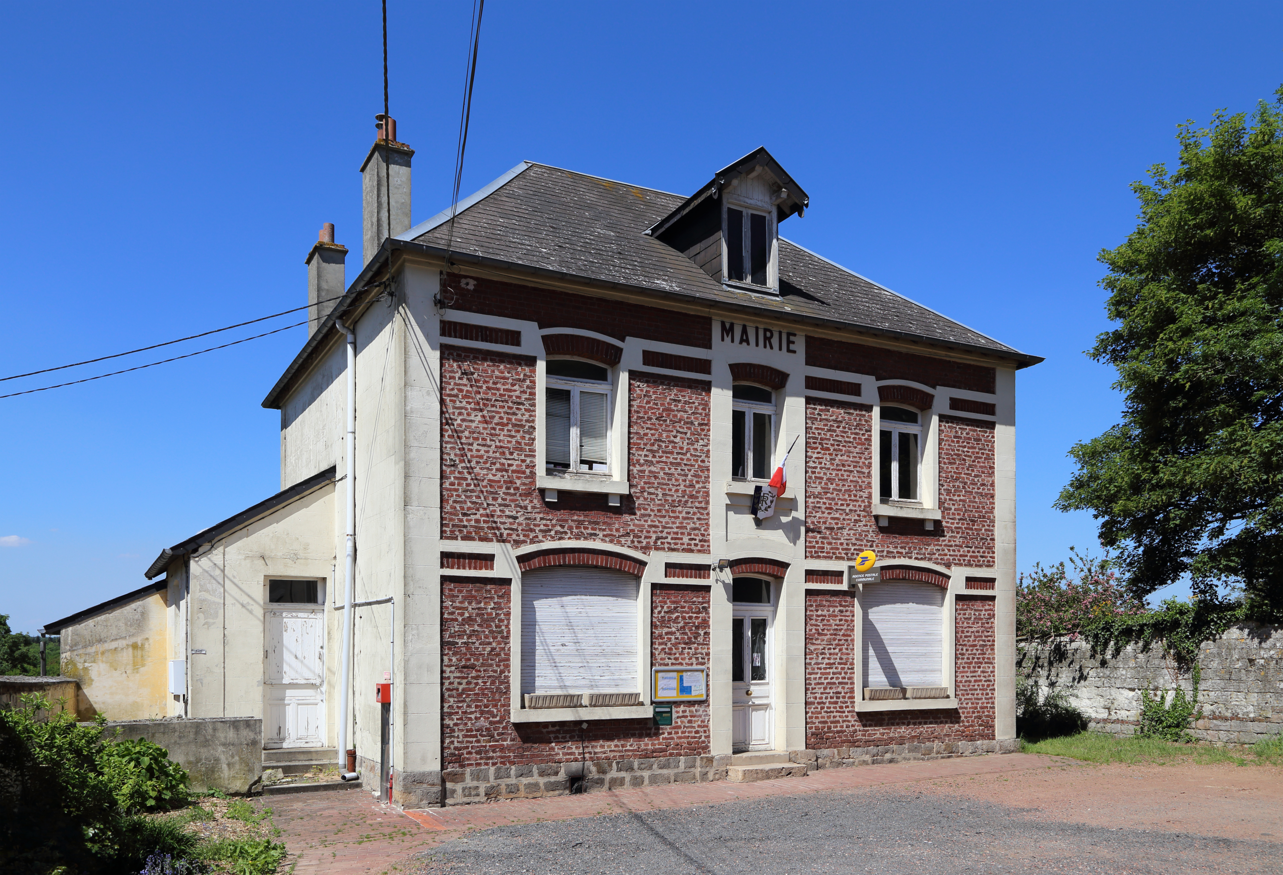 Mont-Saint-Éloi (Pas-de-Calais department, France): town hall